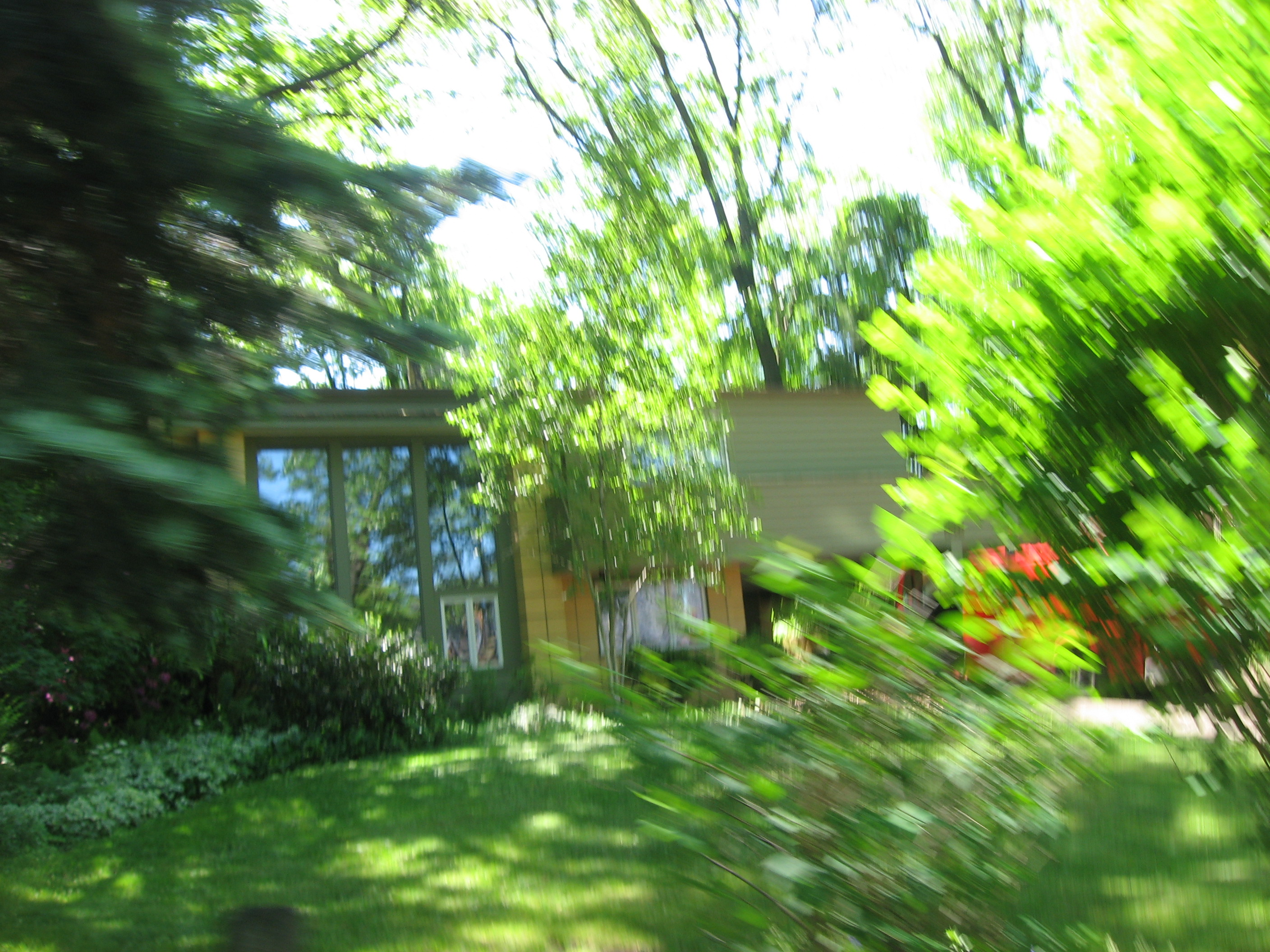 Front lawn of the Lowell E. and Paula G. Jackson House, located at 2935 Ridge Road in Long Beach, Indiana, United States. A better photo cannot easily be obtained: the location is not easily accessible by foot, while the width and layout of the road prevent parking. Built in 1938 according to a design by John Lloyd Wright, it is listed on the National Register of Historic Places.